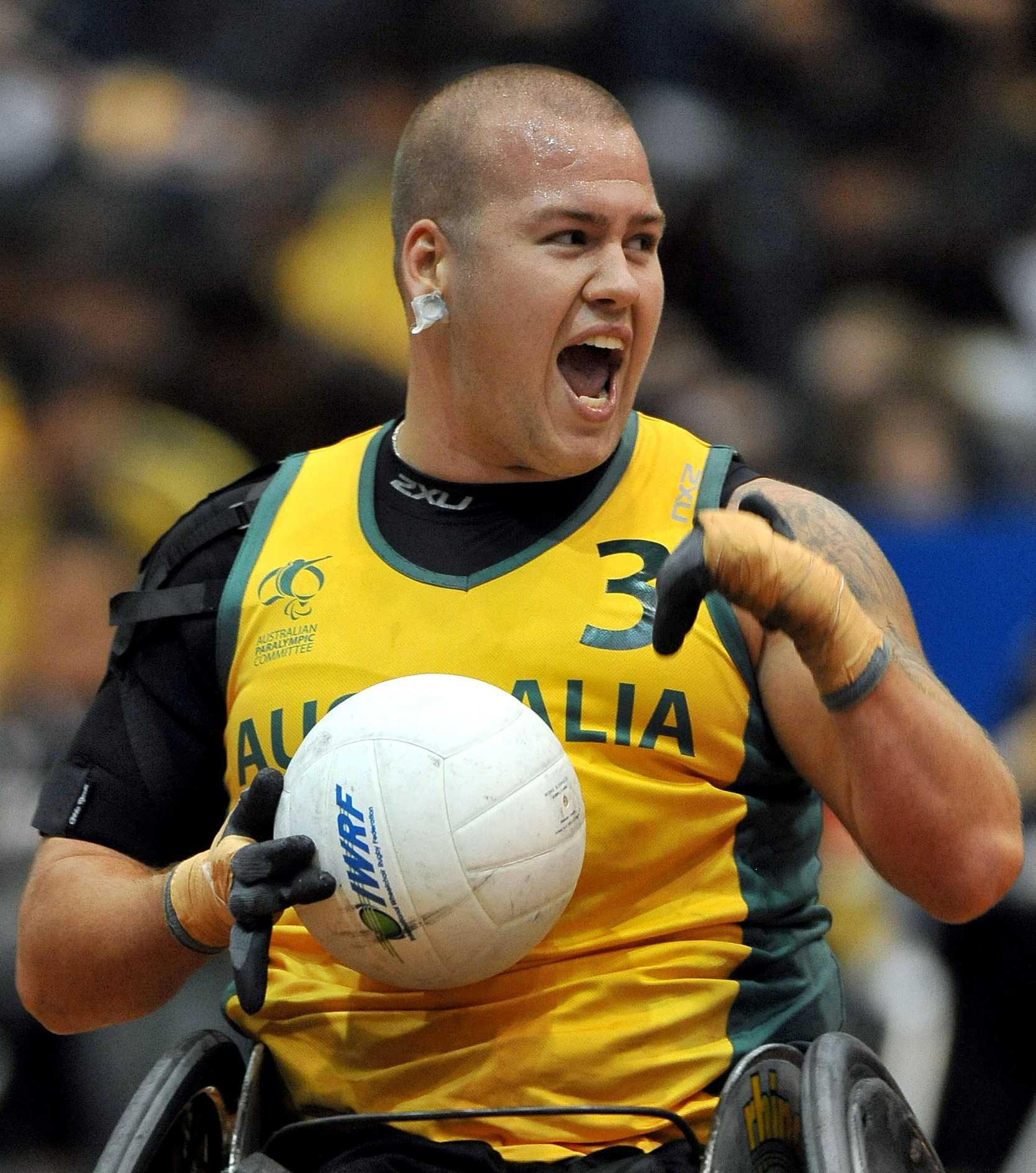 Portrait of Australian wheelchair rugby player Ryley Batt, Australian Paralympic athlete. Action shot circa 2007